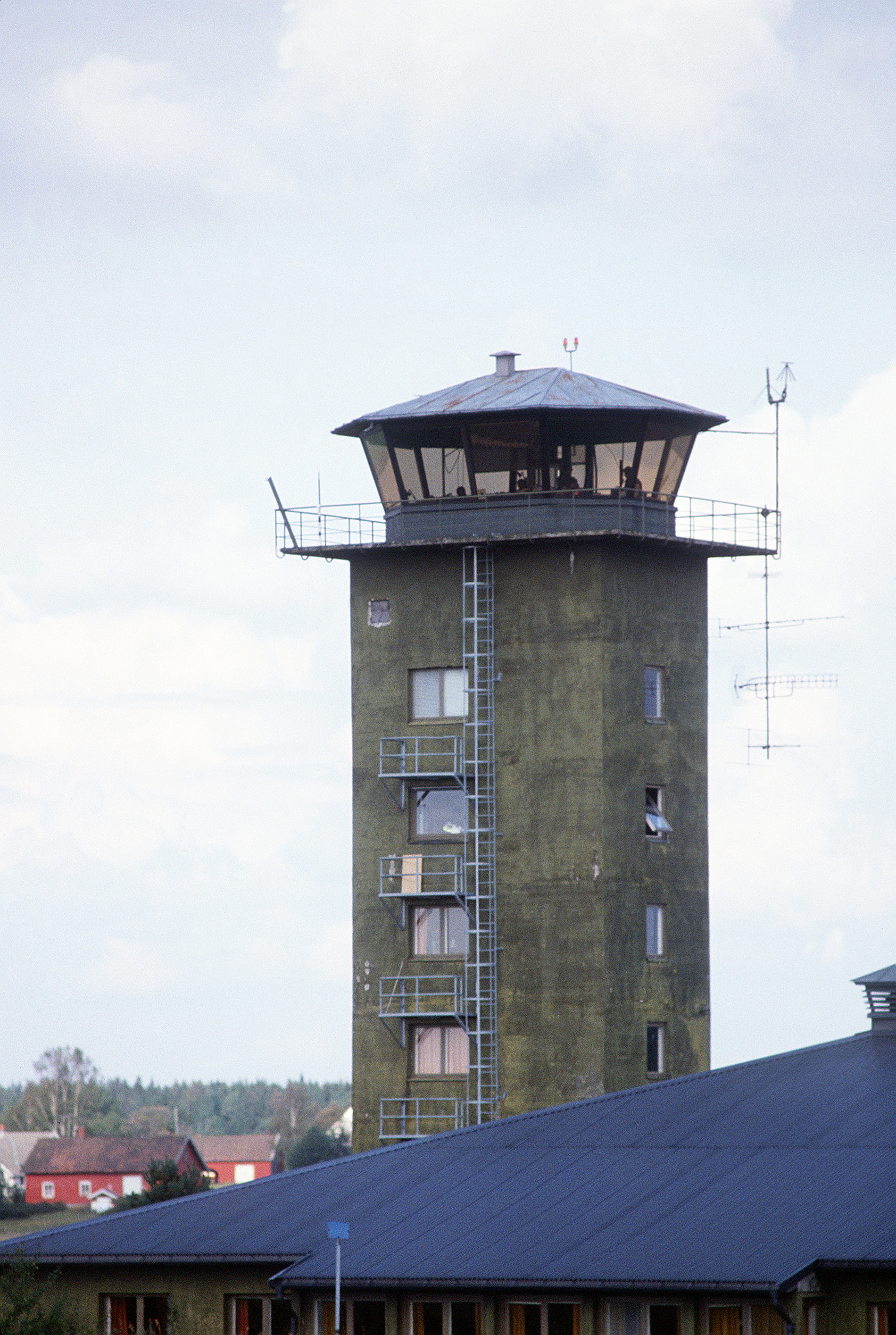 The control tower at Rygge Air Station, Norway.